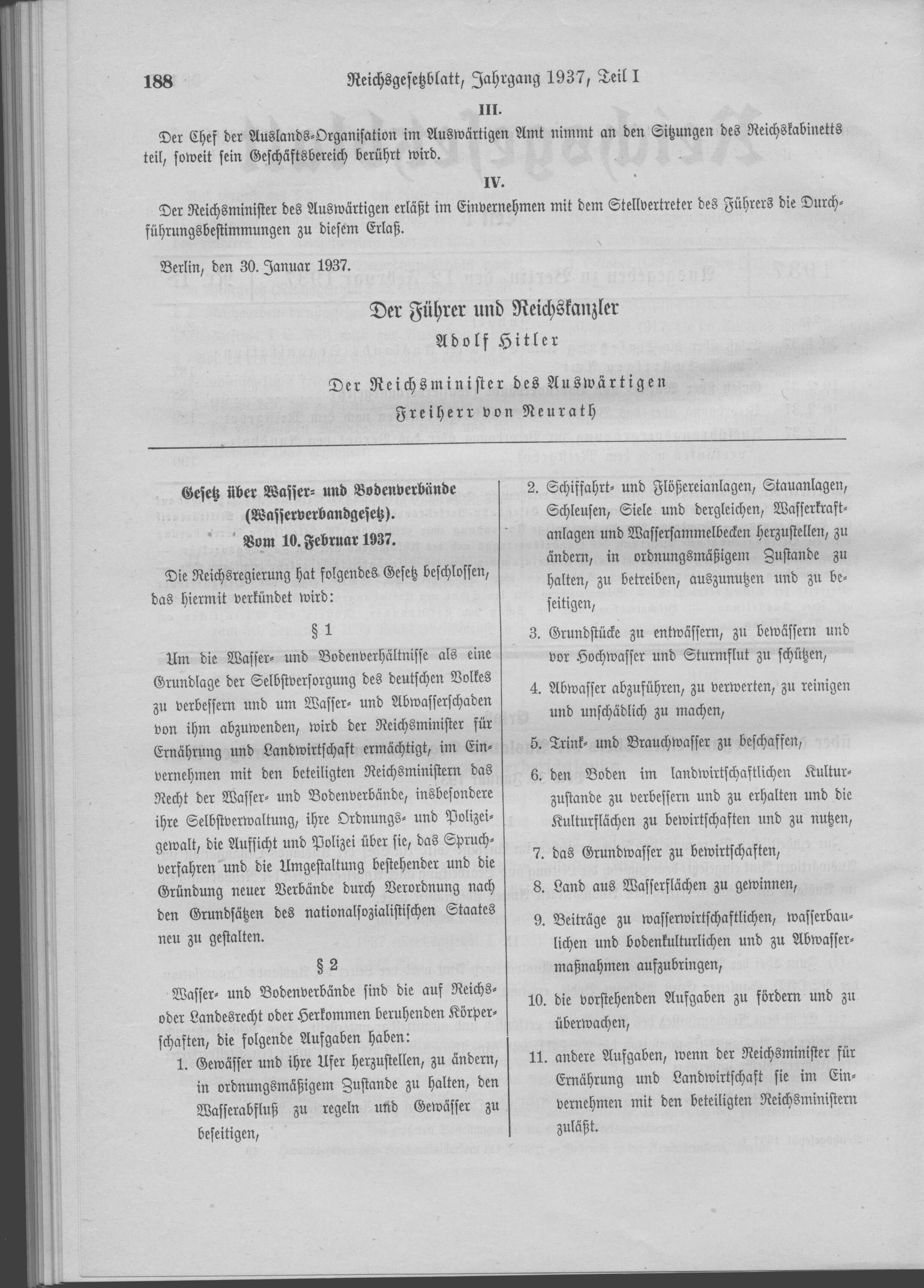 Scan from the Imperial Law Gazette of Germany, 1937, part 1